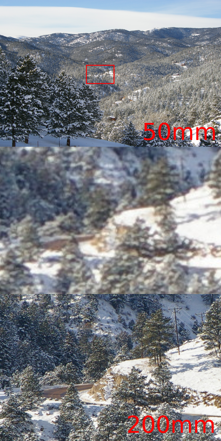 An example of the degradation that digital zoom causes. The part in the red square was scaled up from the 50mm picture for the middle, while the bottom is the lens zoomed to 200mm, or 4x further.